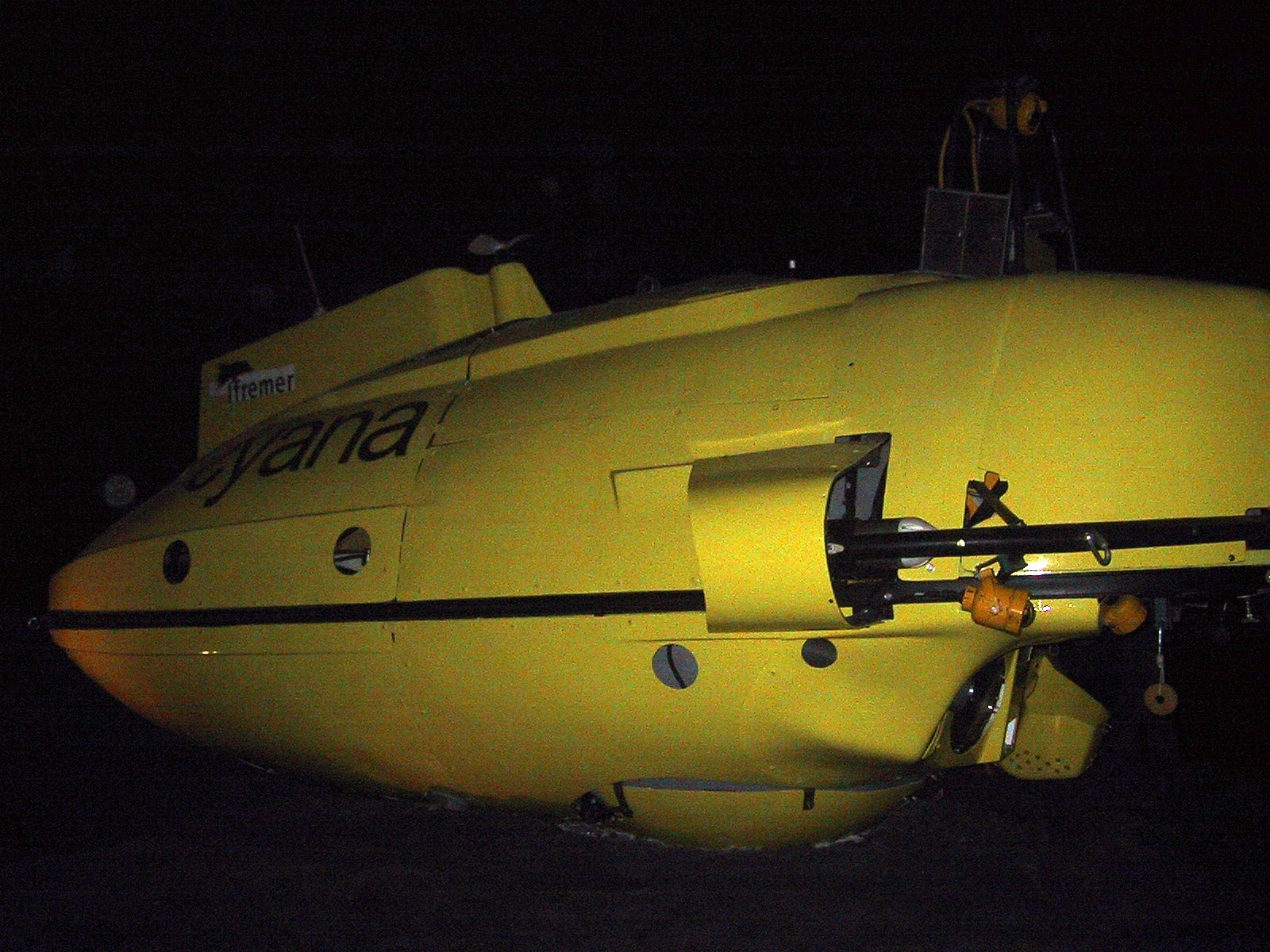 French oceanographic pocket submarine "Cyana" belonging to Ifremer.